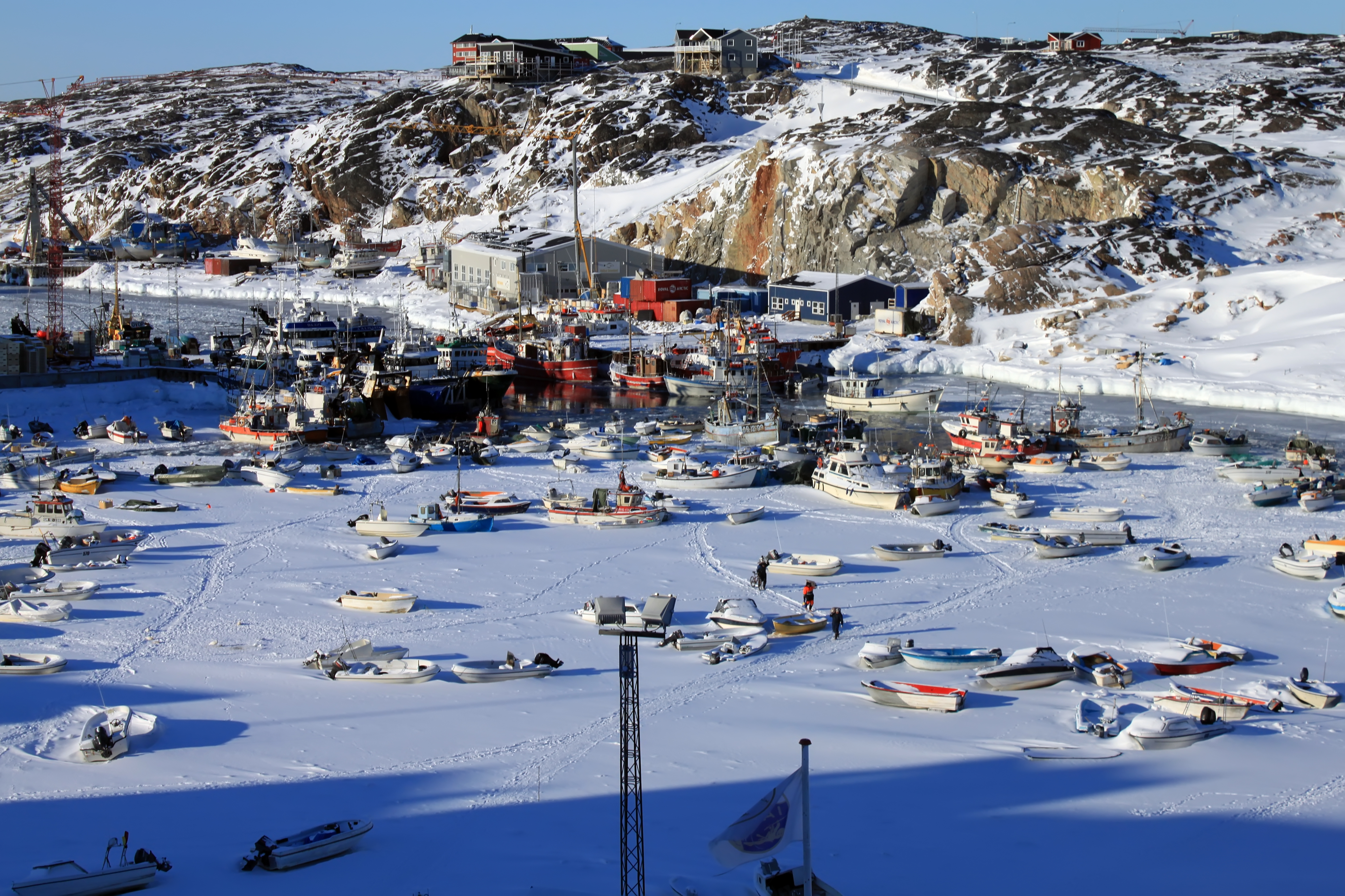 Ilulissat (Greenland), harbour in March